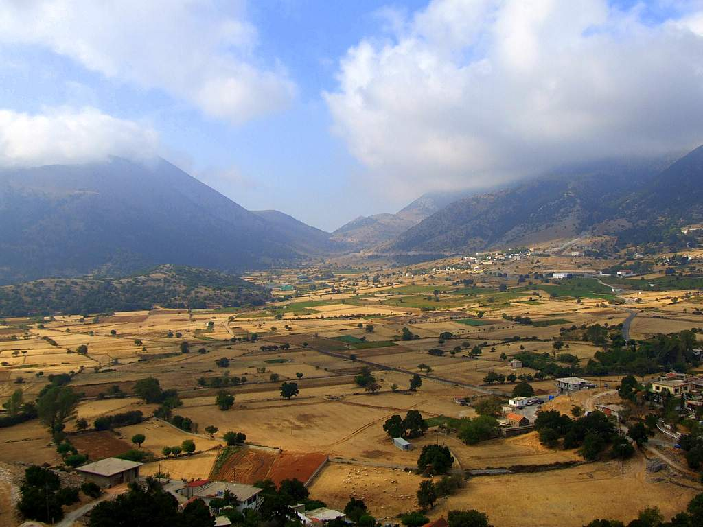 Plain of Askifou (Crete, Greece)